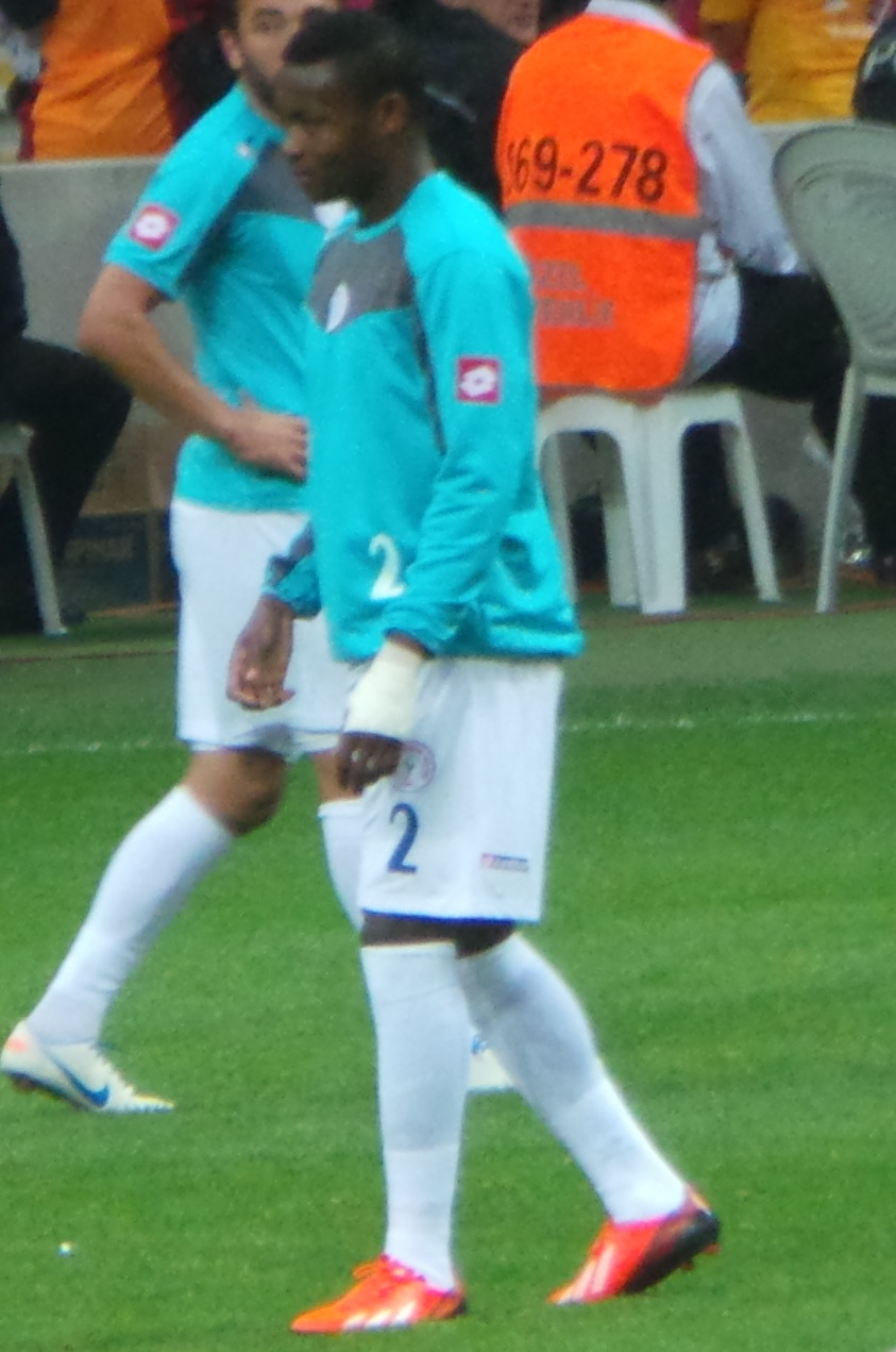 Godfrey Oboabona with Rize